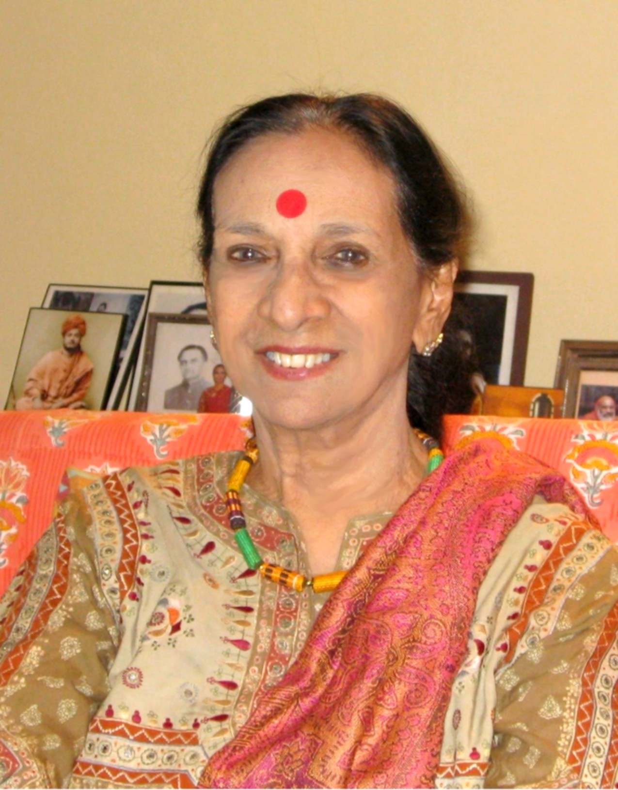 High Priestess of Indian Classical Dance - Mrinalini Sarabhai